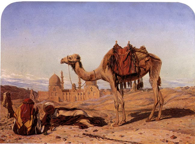 Dromedary and Arabs at the City of the Dead, Cairo, with the Tomb of Sultan El Barkook in the Background